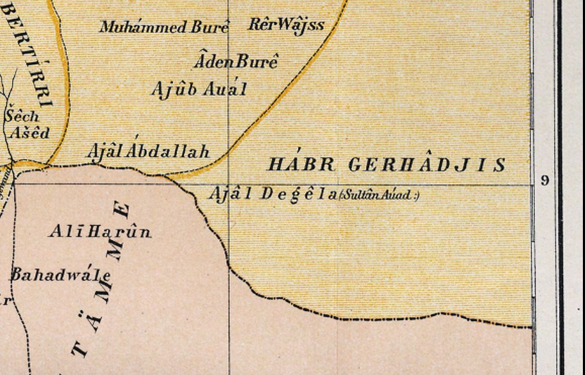 German map locating Sultan Awad.